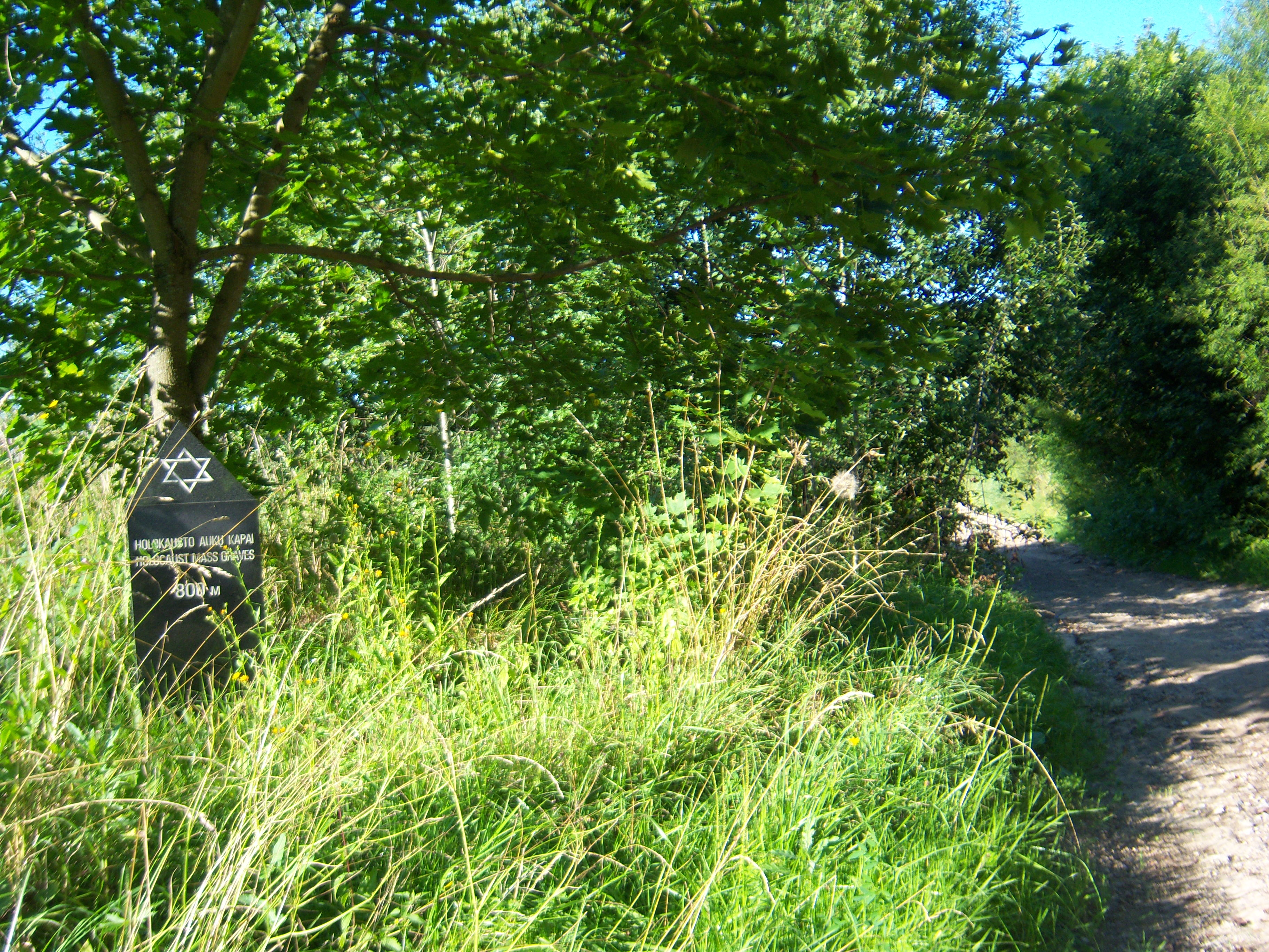 Inscription about holocaust in Rinkūnai, Kaunas district, Lithuania